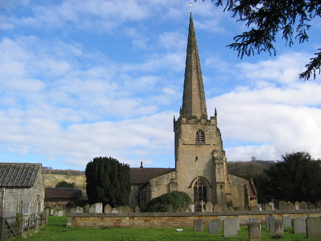 St Edith's parish church, Bishop Wilton, East Riding of Yorkshire, England, seen from the west.